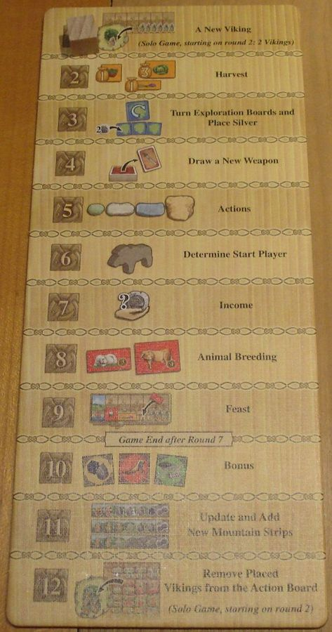 A cardboard cutout from A Feast for Odin by Uwe Rosenberg, photo taken by Michael Wißner on , displaying the order of events in each phase per round in the game.